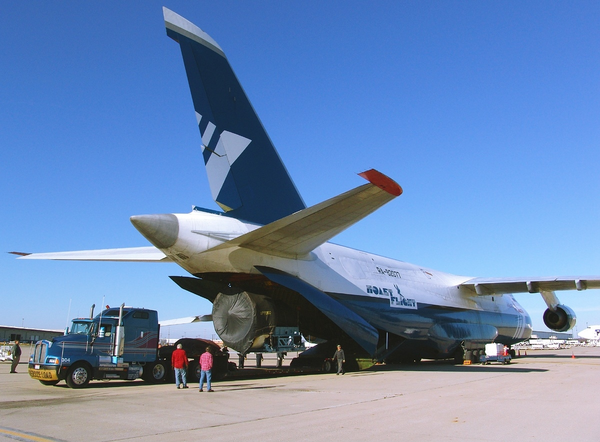 Loading GP7200 - the very first Airbus A380 prototype engine developed by common efforts of GE and P&W. It will be mounted on a Boeing 747 testbed in Victorville, CA. It is so huge that it's dwarfing D-18T Progress engines of the Russian giant!